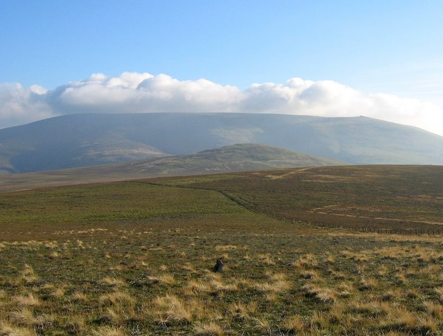 The Cheviot. Looking south over Coldburn Hill to The Cheviot. Within 20 minutes of taking this picture the cloud seen above Cheviot would engulf everything above 1000 foot.